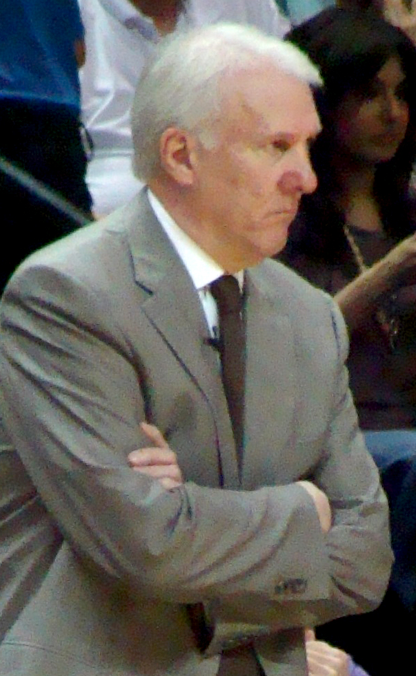 Gregg Popovich of The San Antonio Spurs, against the Boston Celtics, March 31, 2011.